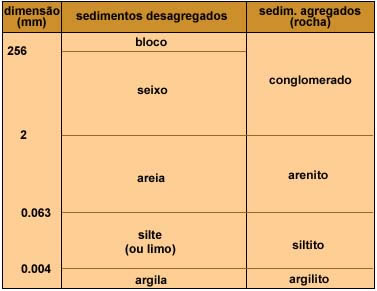 Udden Wentworth granulumetric scale